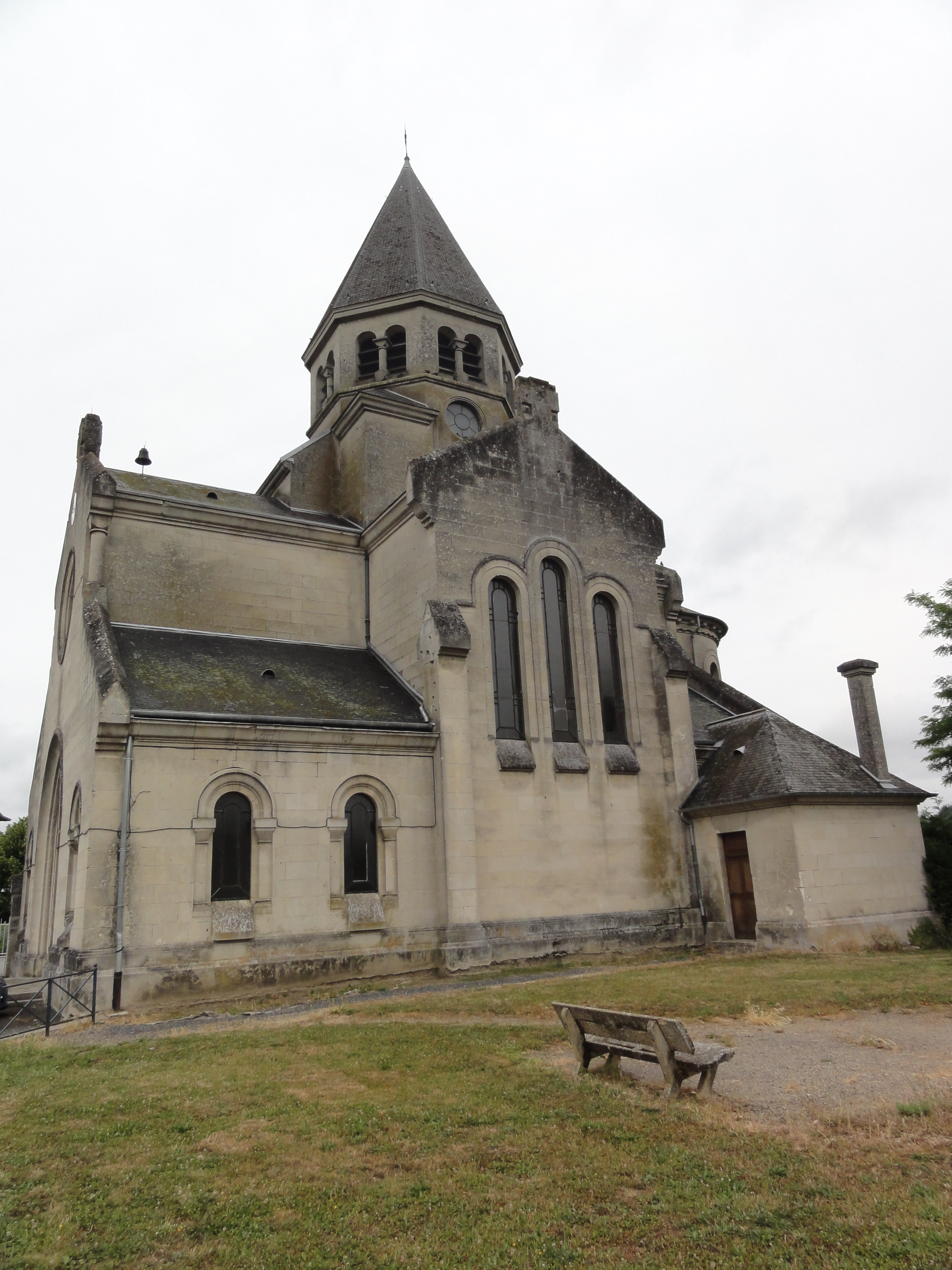 Leuilly-sous-Coucy (Aisne) église